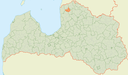 Location of Aloja Parish in Latvia